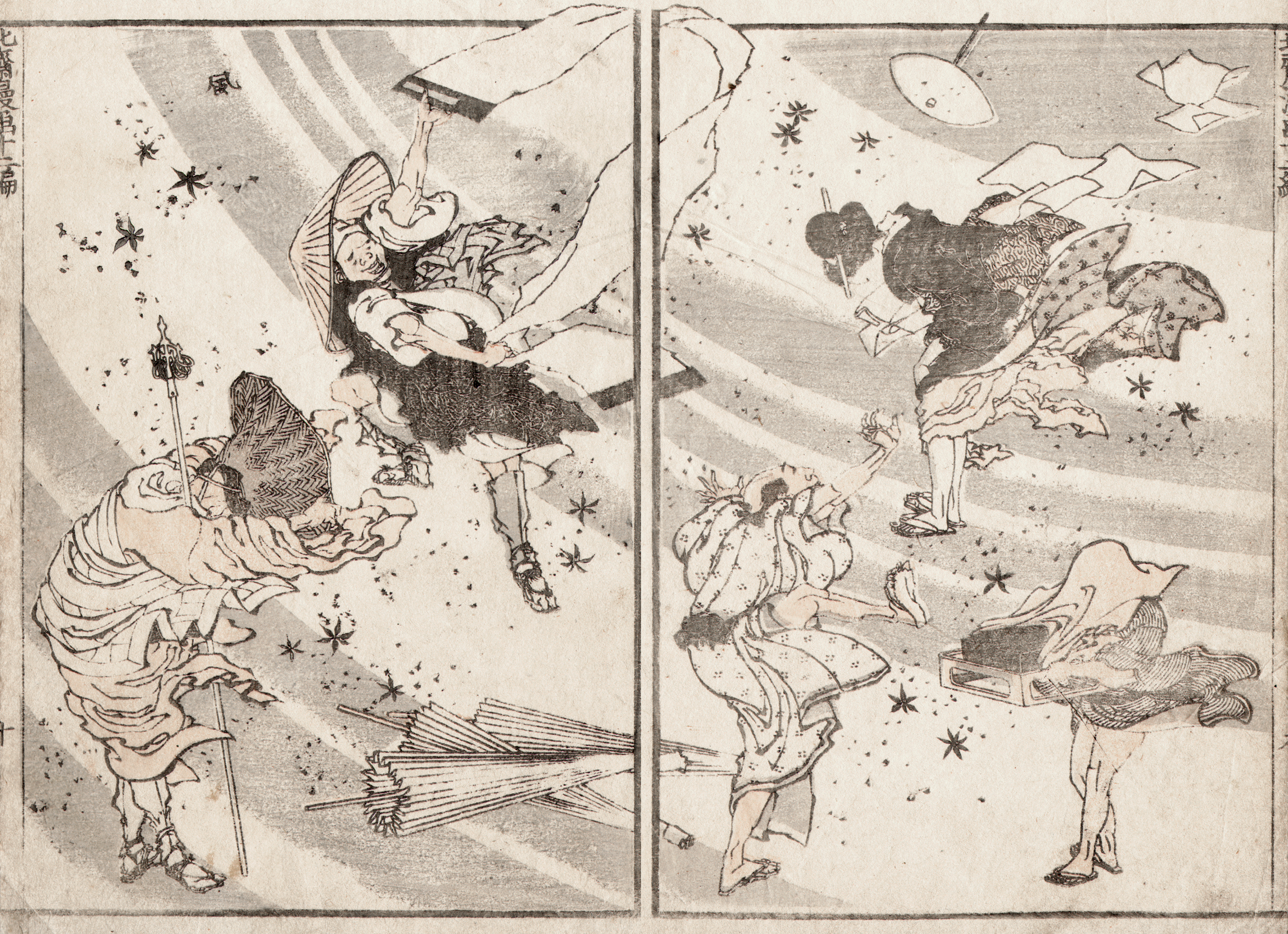 Hokusai-Manga 5